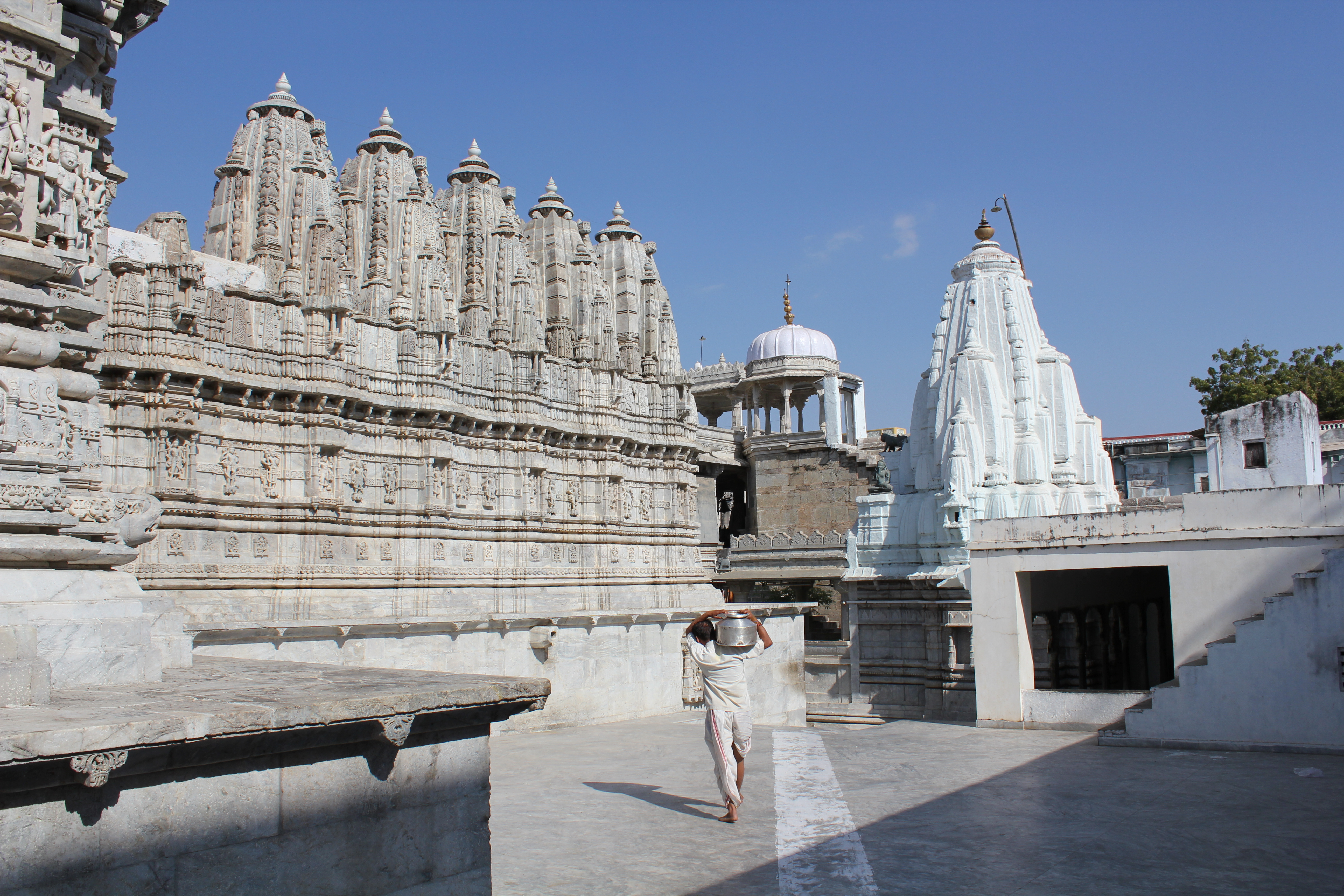 Rishabhdeo Jain temple Rishabhdeo (aka Dhulev) is a town in the state of Rajasthan, India. It is a well-known Jain pilgrim site. The main attraction is the temple of Rishabhadeoji, the first Jain tirthankara. Local Bhils also worship the deity. Lord Rishabhadeo is also "Kesariaji" because a large offering of saffron (keshar, a common ingredient in Jain rituals) is made to the deity. This temple was considered to be one of the four main religious institutions of Mewar. The main idol of this temple is Lord Rishabh Dev, carved in black stone in padmasana posture, about 1.1 m tall. (source